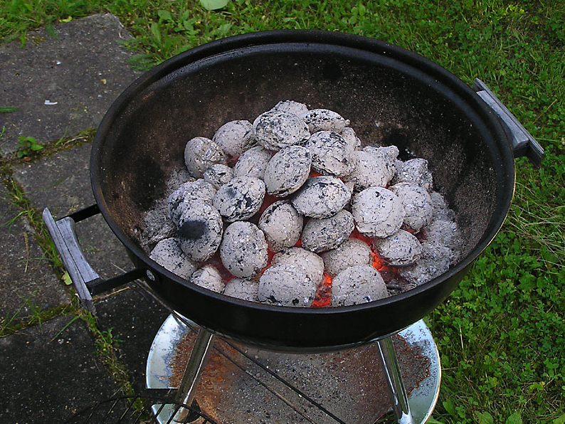 Grill